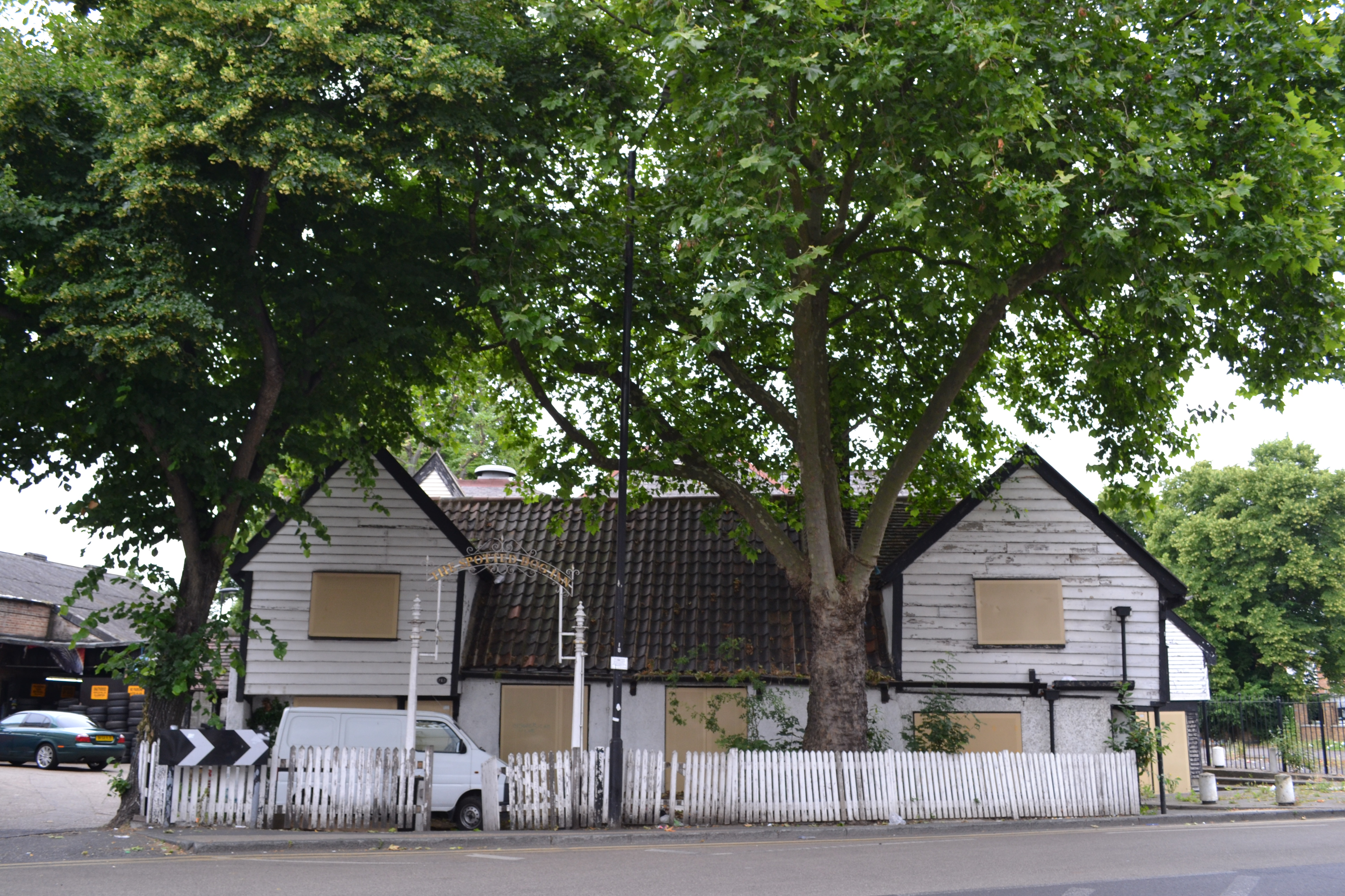 It was in 1888 that Clapton FC began playing at the ground which took its name from this now derelict pub – the Old Spotted Dog. Over 80 years ago, Clapton were one of England's most powerful amateur sides, winning the prestigious F.A. Amateur Cup five times. The pub in Upton Lane, near Forest Gate station, has been boarded up for several years.